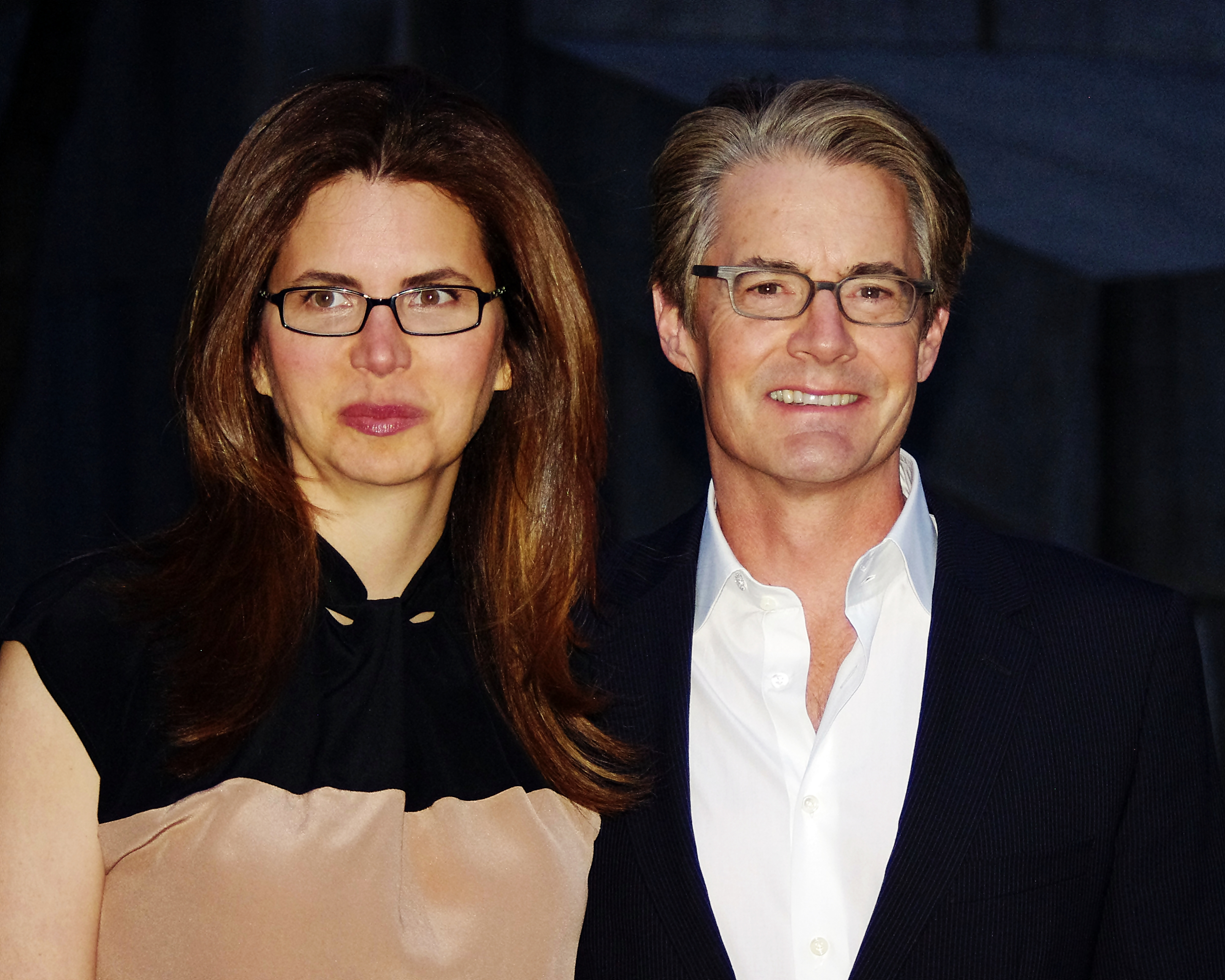 Desiree Gruber with husband Kyle MacLachlan at the Vanity Fair party for the 2012 Tribeca Film Festival.